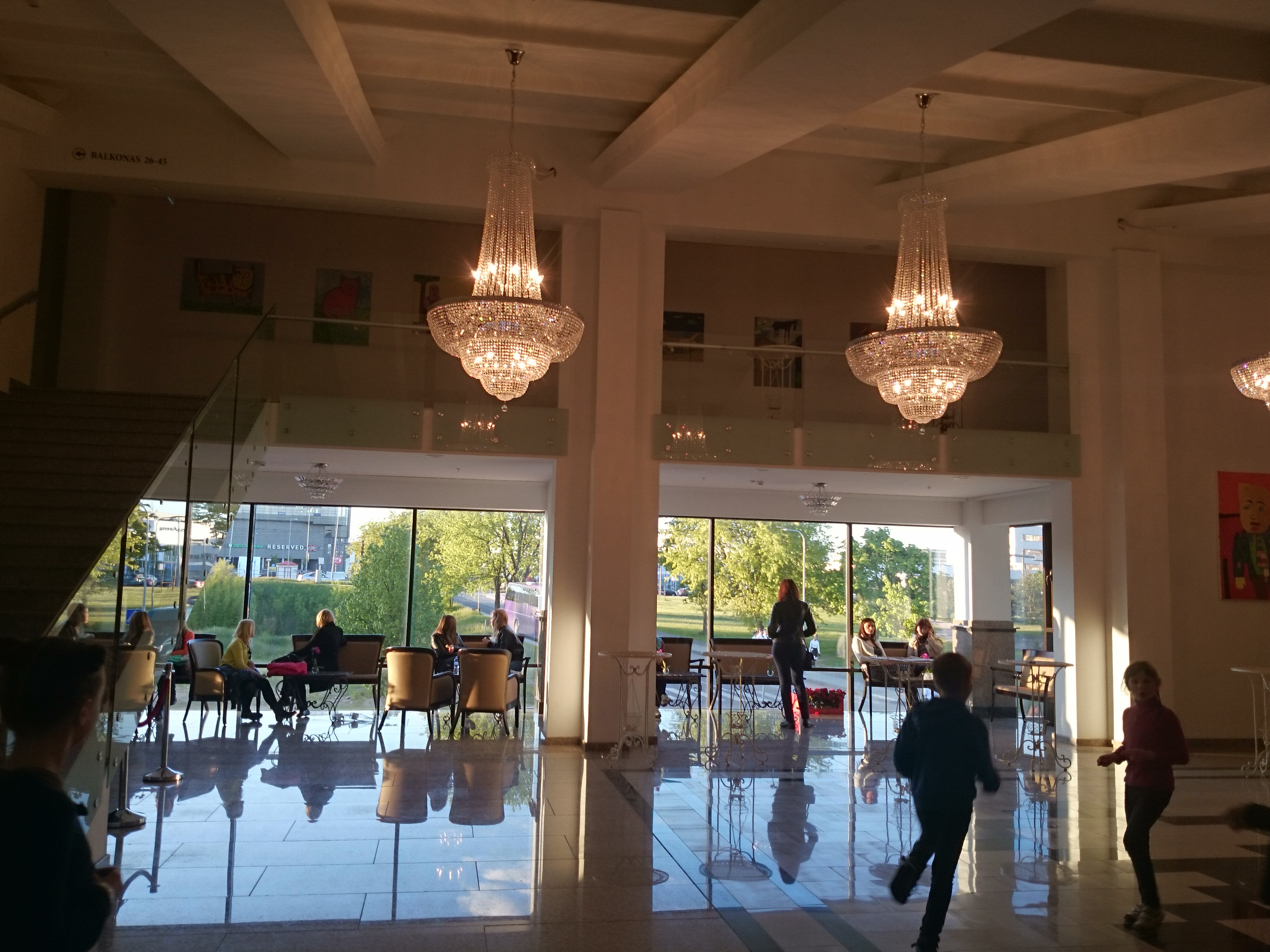 Compensa koncertų salė